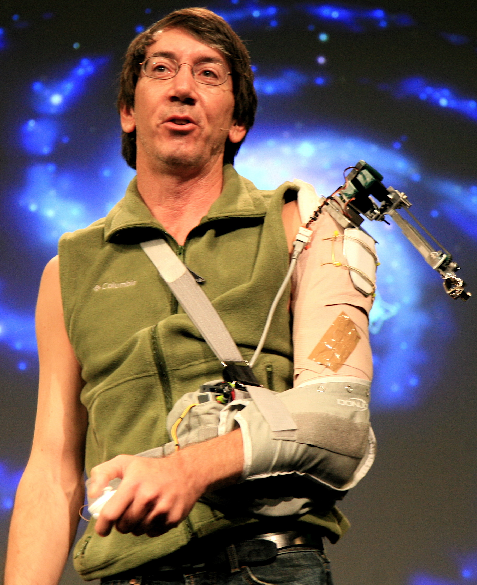 Will Wright